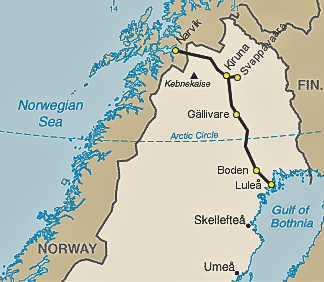 Map of Malmbanan in Sweden and Norway.